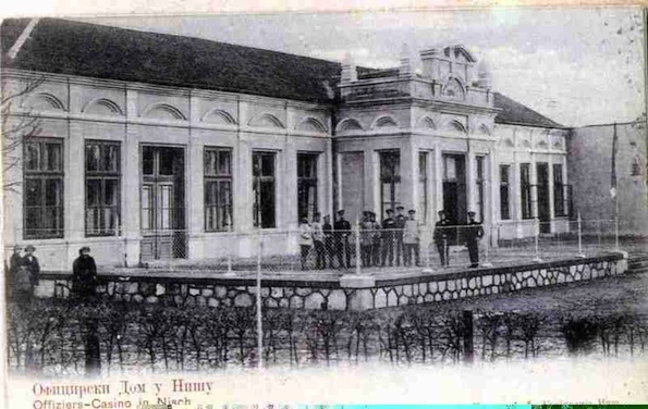 Officers' Club in Nis